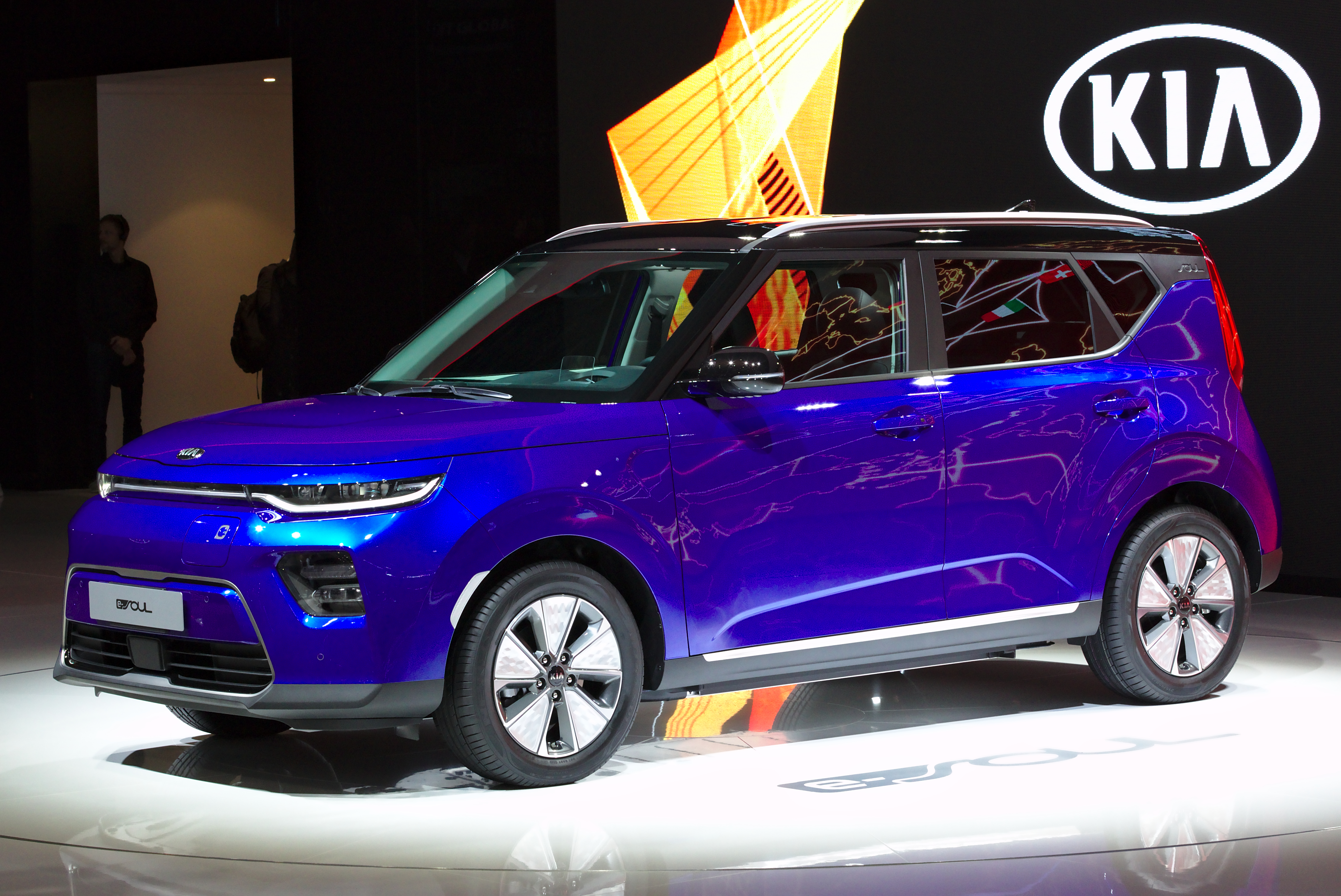 Kia e-Soul at Geneva Motor Show 2019